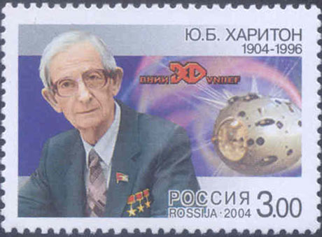 Stamps of Russia. The 100th birth anniversary of scient-physicist Y.B.Khariton (1904-1996), 2004